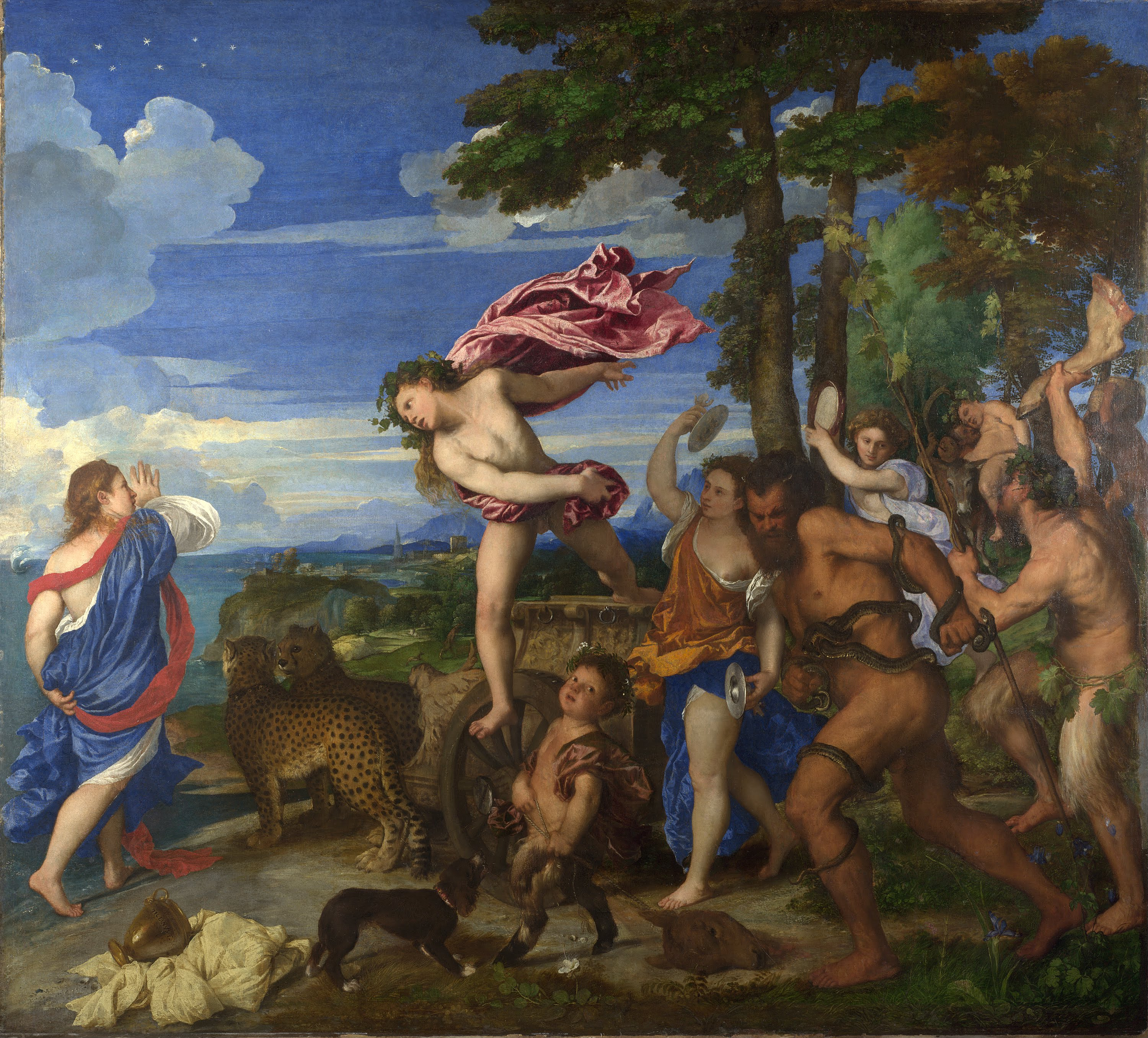 Theseus, whose ship is shown in the distance, has just left Ariadne and Naxos, when Bacchus arrives, jumping from his chariot, drawn by two cheetahs falling immediately in love with Ariadne. Bacchus raised her to heaven. Her constellation is shown in the sky.